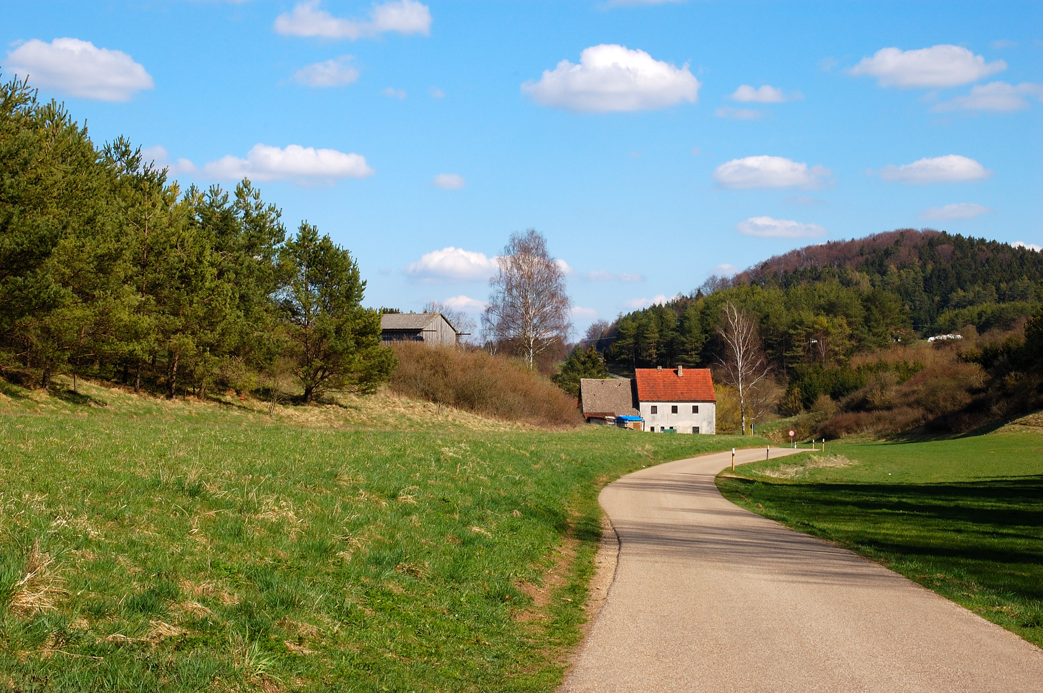 typical landscape of Oberpfälzer Jura in Bavaria, Germany 5-6,3 XR Di II LD Aspherical [IF] MACRO